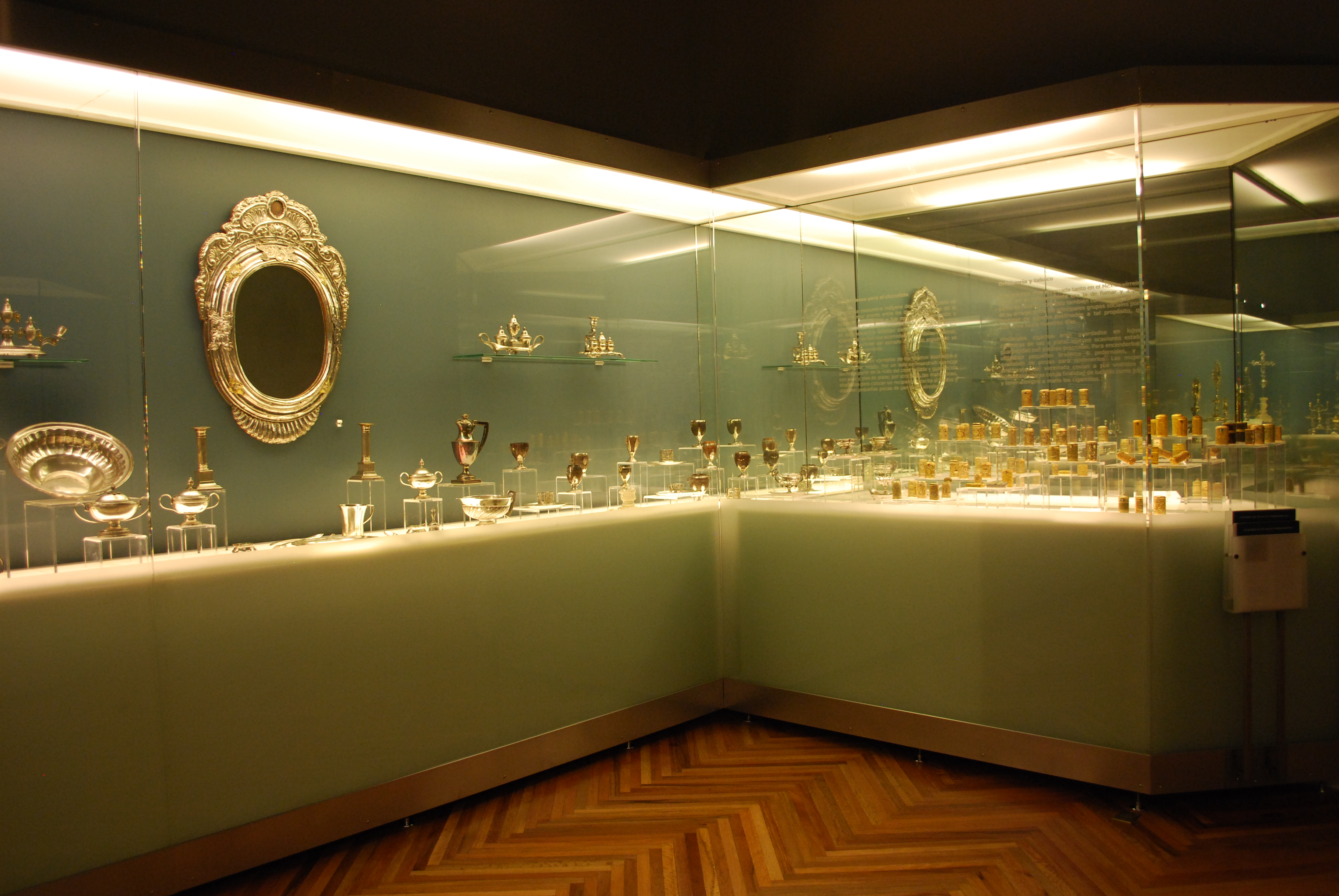 Silver objects on display at the Franz Mayer Museum in Mexico City